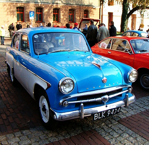 Moskvich 407 (1959-60 model)